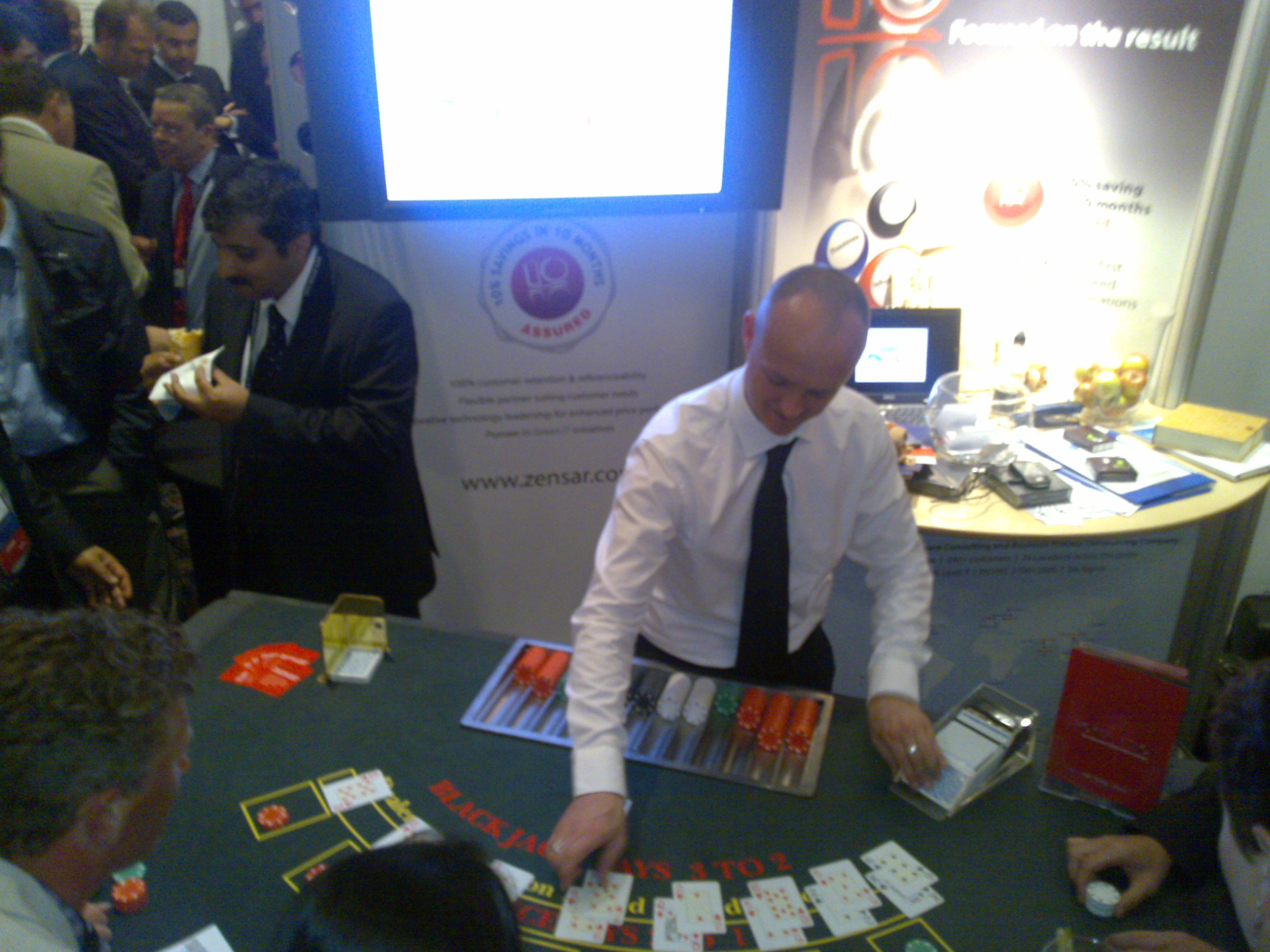 The Gartner Outsourcing Summit 2009 in London - Zensar gambling display